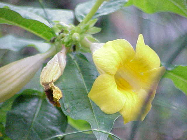 Species: Allamanda schottii Family: Apocynaceae Image No. 1